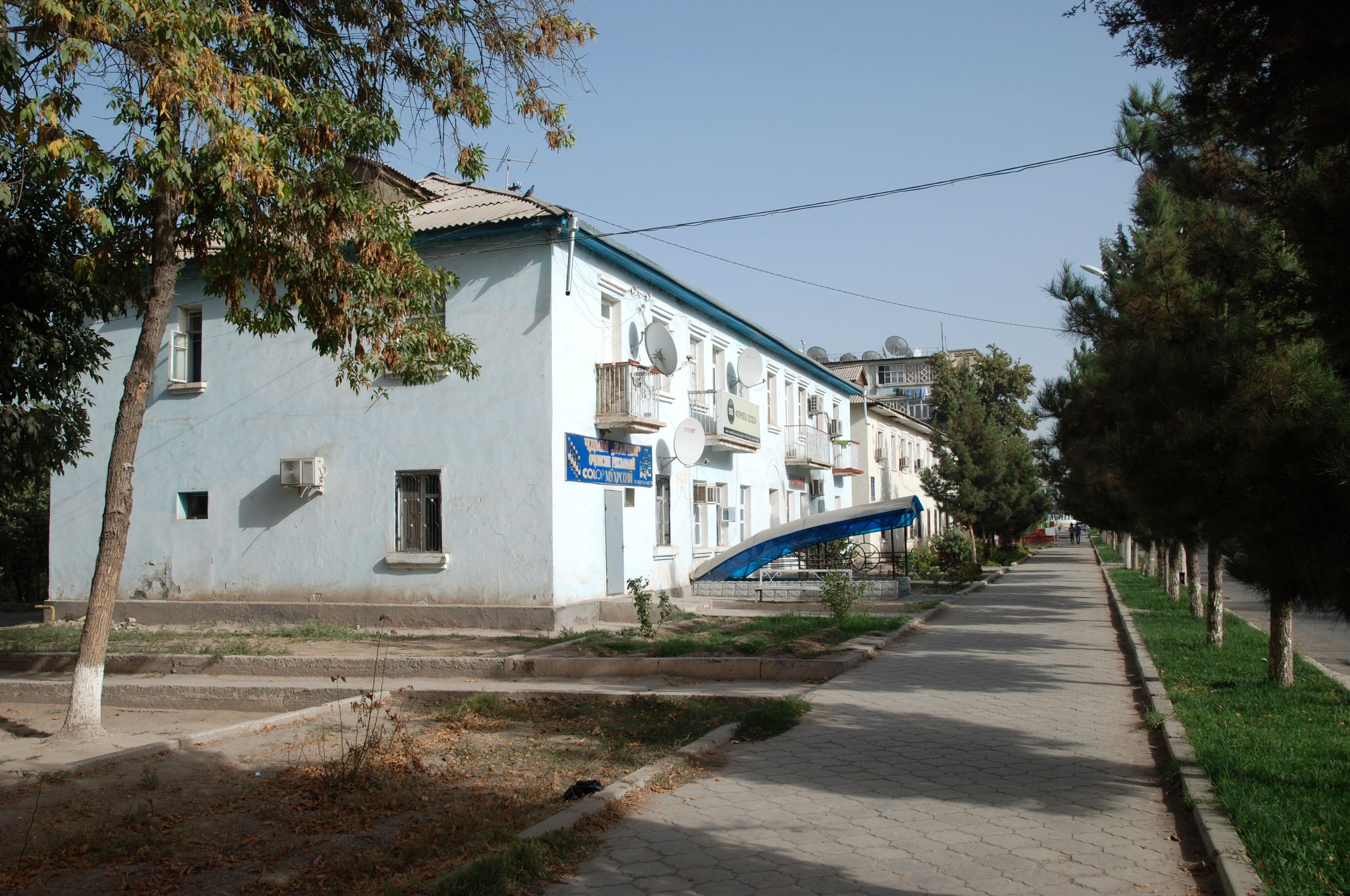 Qurghonteppa, Vahdat street